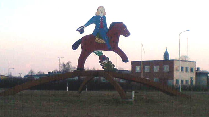 The symbol of Hedemora town (Sweden). Picture taken with a SE K750i. Illuminated in Photoshop.